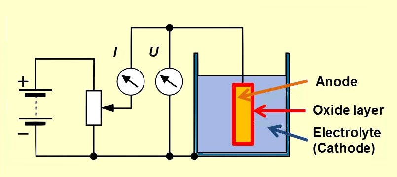 Principle of the anodic oxidation